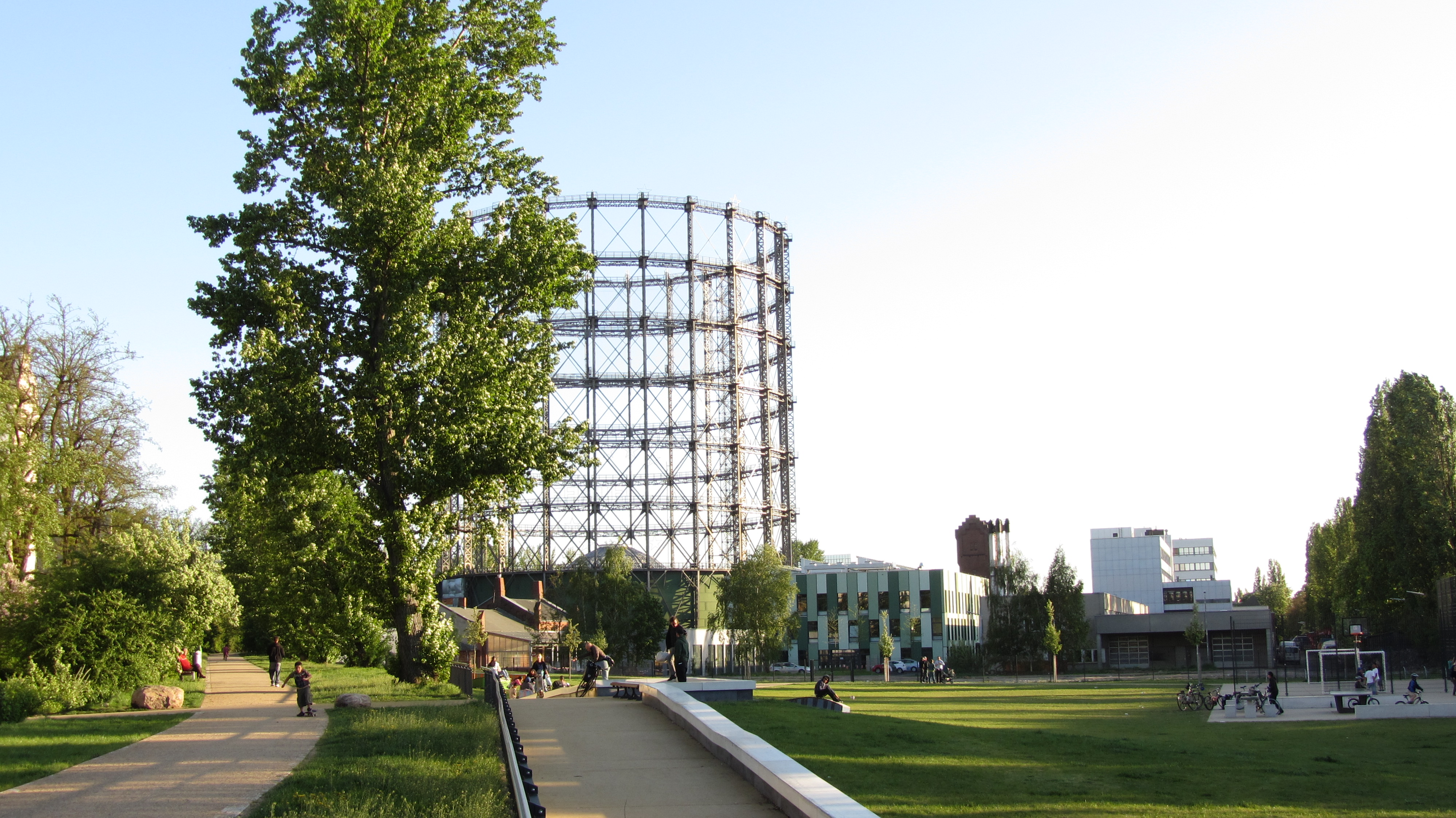 Impressions